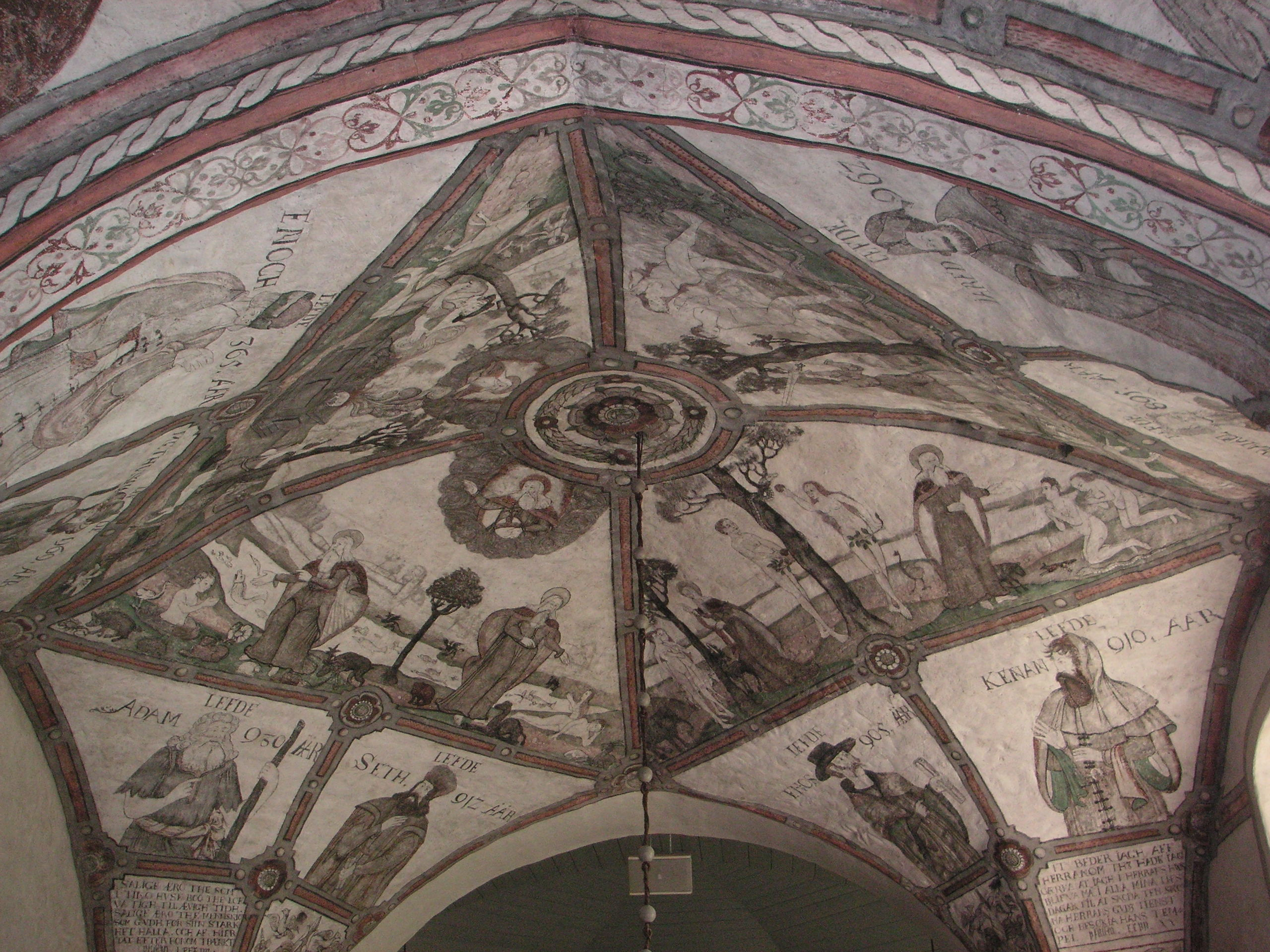 Interior of the church in Knista (Sweden)